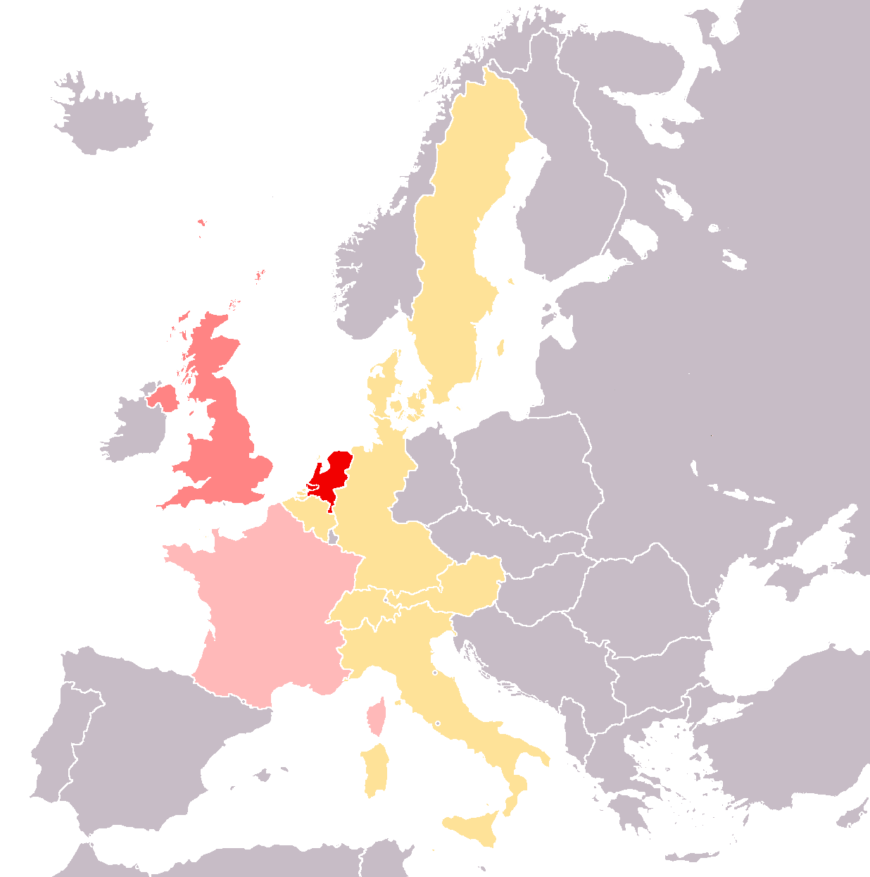 Map of Eurovision 1959